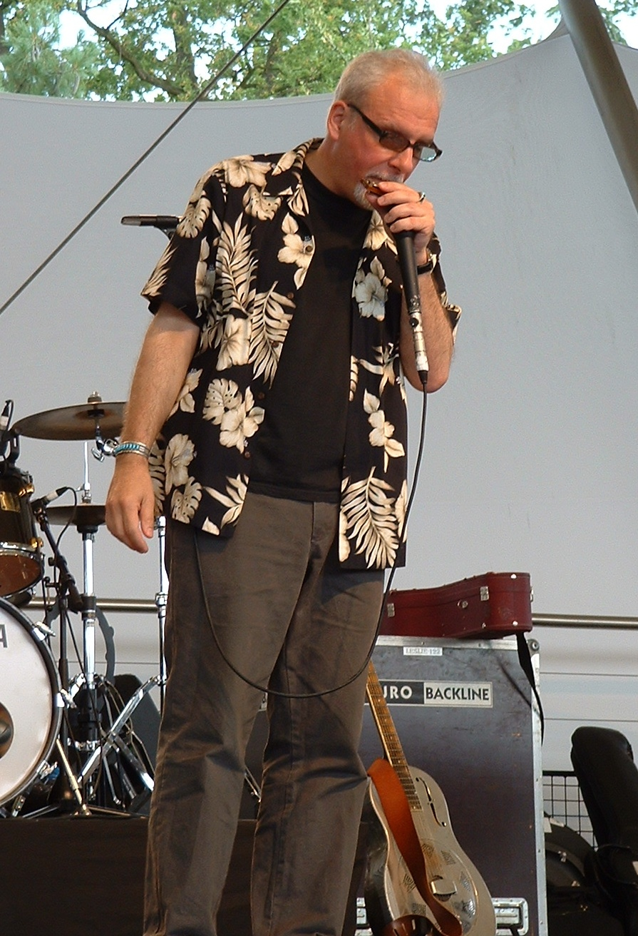 Jean-Jacques Milteau. Concert of Jean-Jacques Milteau[1], a great French bluesman, "King of Harmonica", at the Paris Jazz Festival 2006, Parc Floral de Paris, July 8, 2006. JJM's band: Jean-Jacques Milteau, harmonica, vocals Demi Evans, vocals Manu Galvin, acoustic guitar, vocals Gilles Michel, acoustic bass guitar, vocals Eric Laffont, drums, vocals Guest musicians: Zephyrologie brass band[2] Patrick Verbeke Quintet[3]